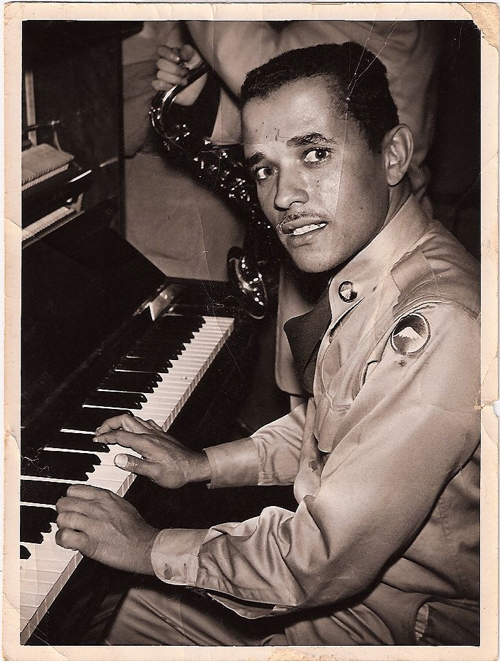 Hampton Hawes in Japan in 1953